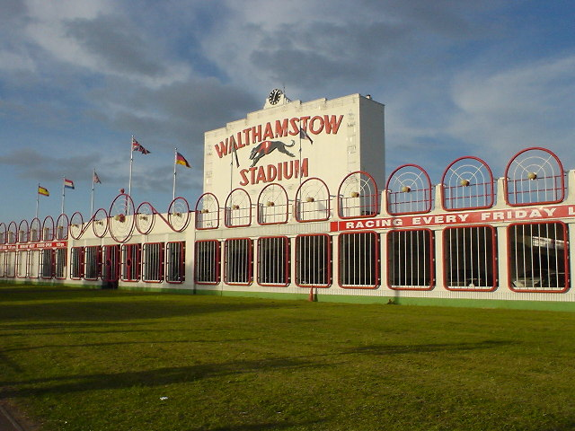 Walthamstow Stadium. Greyhound racing since 1933